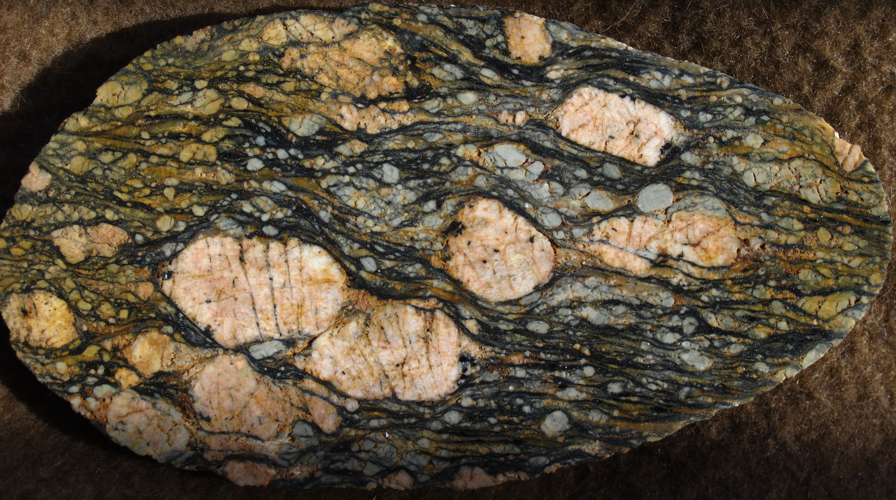 Sample of augen mylonite from near Røragen, Norway. This deformed megacrystic granite has large porphyroclasts of potassium feldspar and small, rather rounded porphyroclasts of plagioclase feldspar in a matrix of recrystallised quartz, feldspar and micas